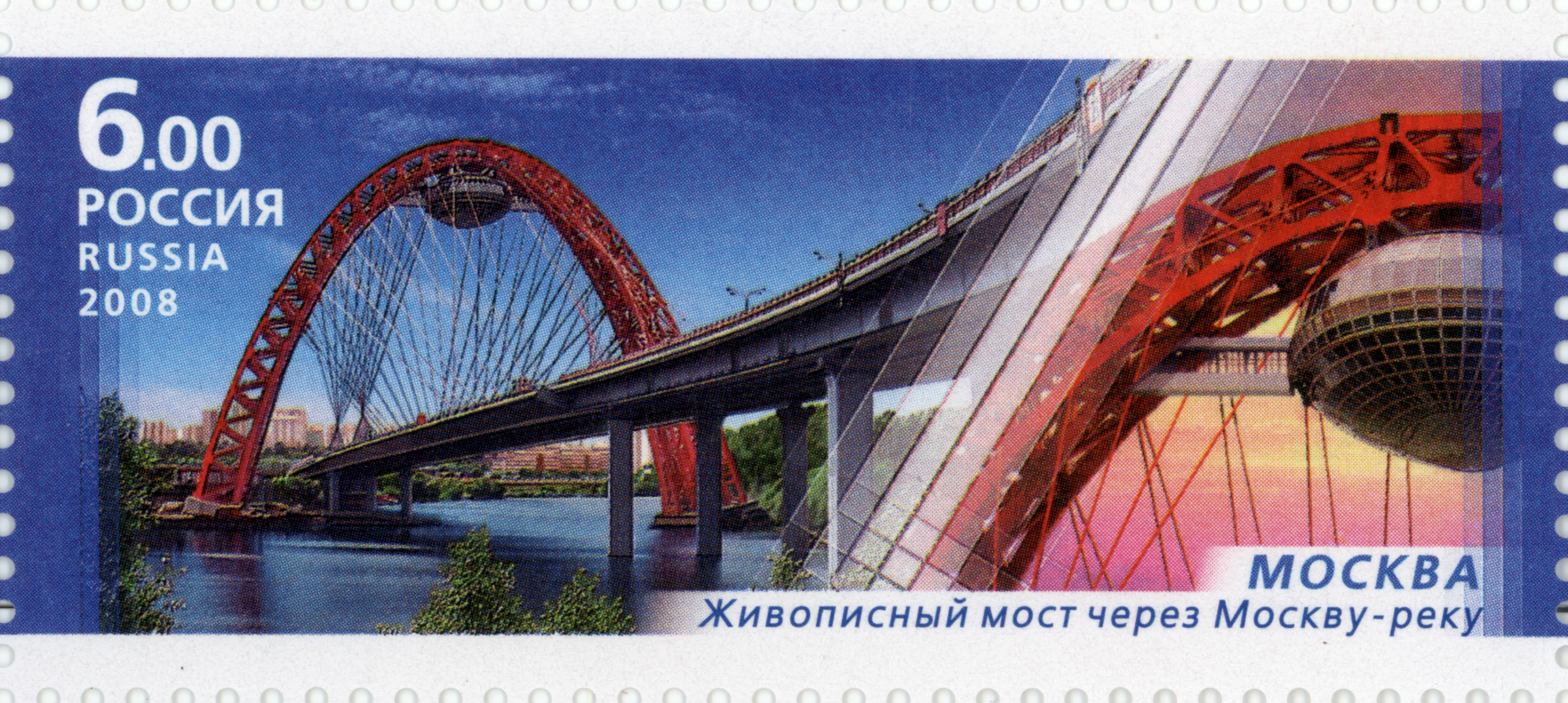 Postage stamp of Russia. 2008. Cable-braced bridges. Moscow. Zhivopisny bridge over Moscow river.